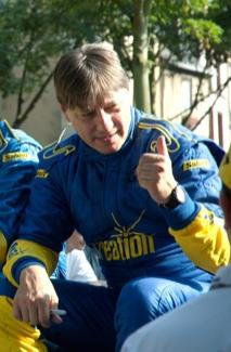 Beppe Gabbiani at the 2006 24 Hours of Le Mans drivers' parade